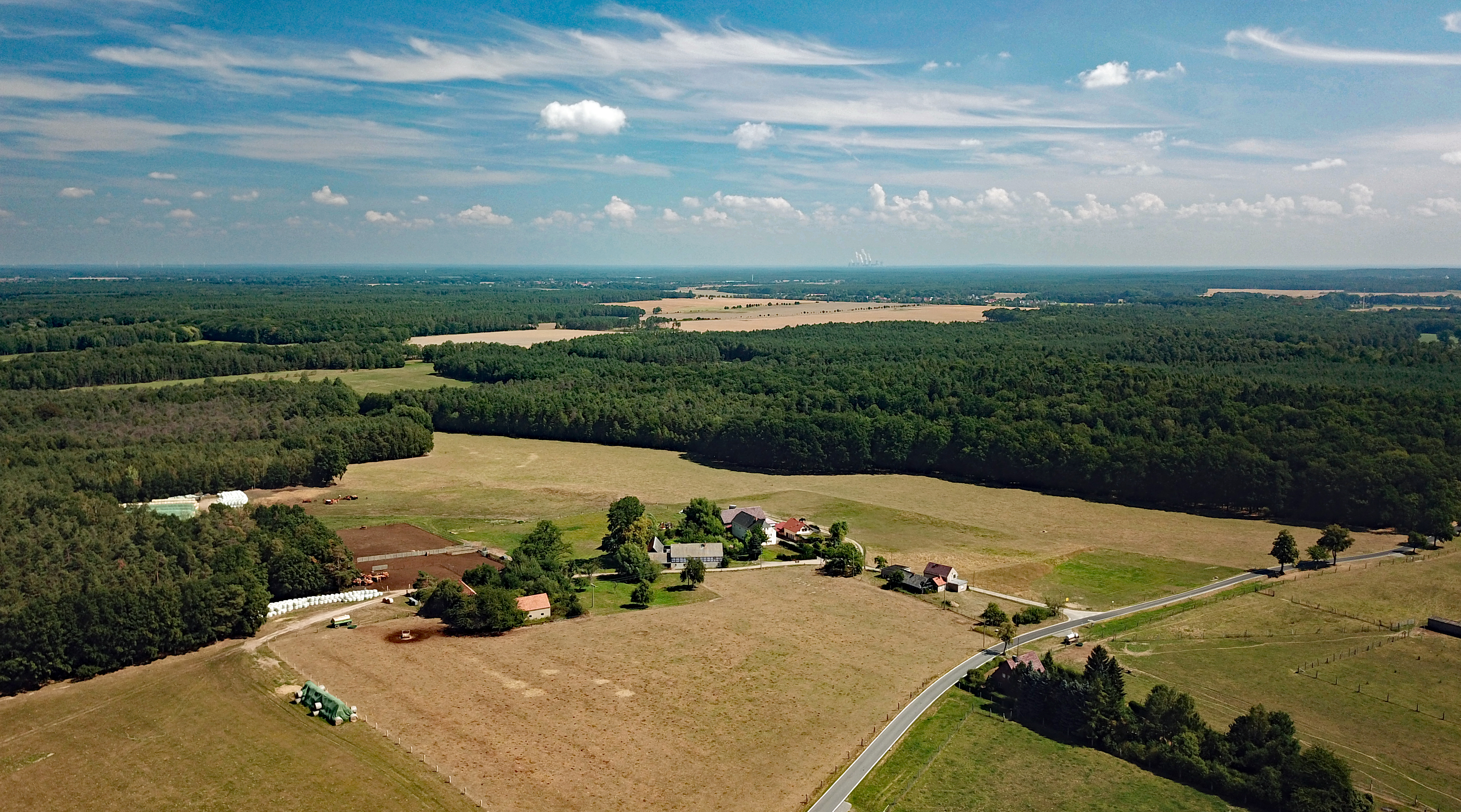 Lissahora (Neschwitz, Saxony, Germany) Hornjoserbsce: Powětrowy wobraz Lišeje Hory